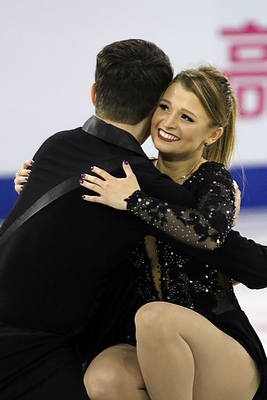 Kirsten Moore-Towers at the 2015 Skate Canada.